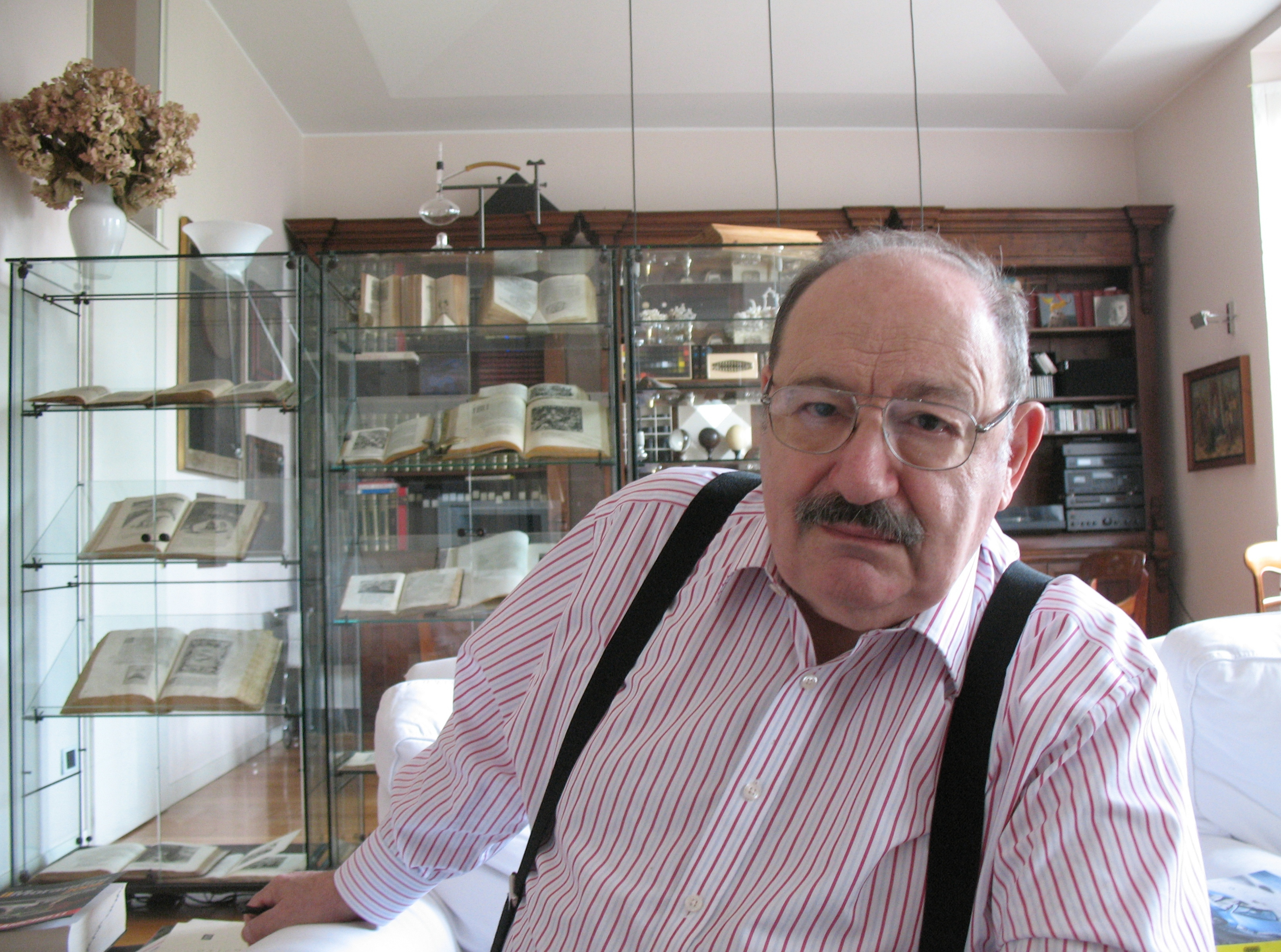 Umberto Eco interviewed by Aubrey in his Milan apartment for Wiki@Home. Here's the interview (in italian).